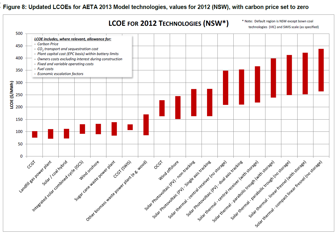 The image is a screenshot from the cited source (the Australian Energy Technology Assessment 2013 Model Update, Figure 8), which shows the levelised costs of electricity by source in NSW (plus a couple of other stated regions as stated for those technologies outside), without a carbon price, in 2012.